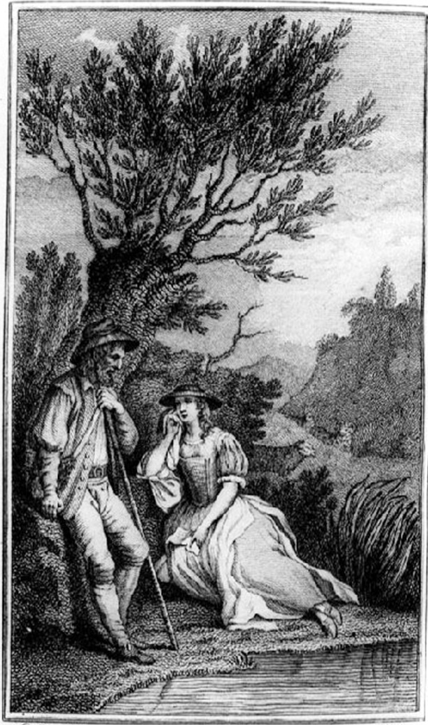 The first ever known illustration to Shakespeare's poem A Lover's Complaint